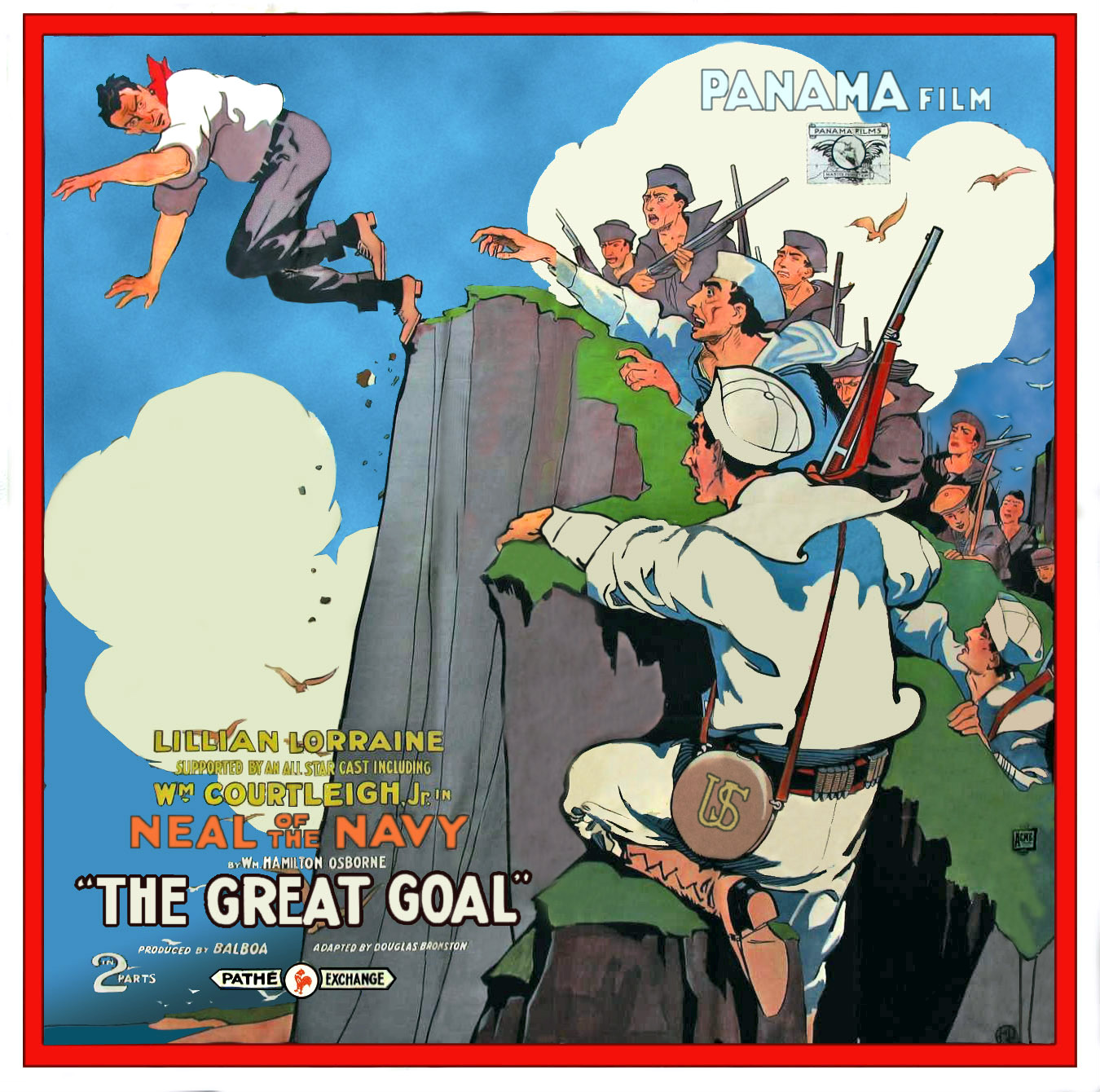 Poster for the 1915 film Neal of the Navy. This was a serial shown in 2 episodes at theaters.